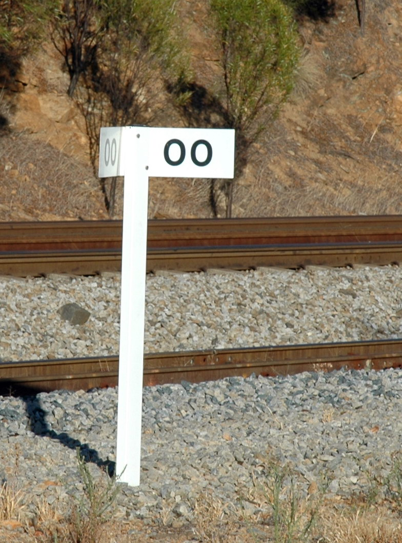 Railway kilometre peg marking the start of the Toodyay West to Miling narrow gauge branch line in Western Australia.